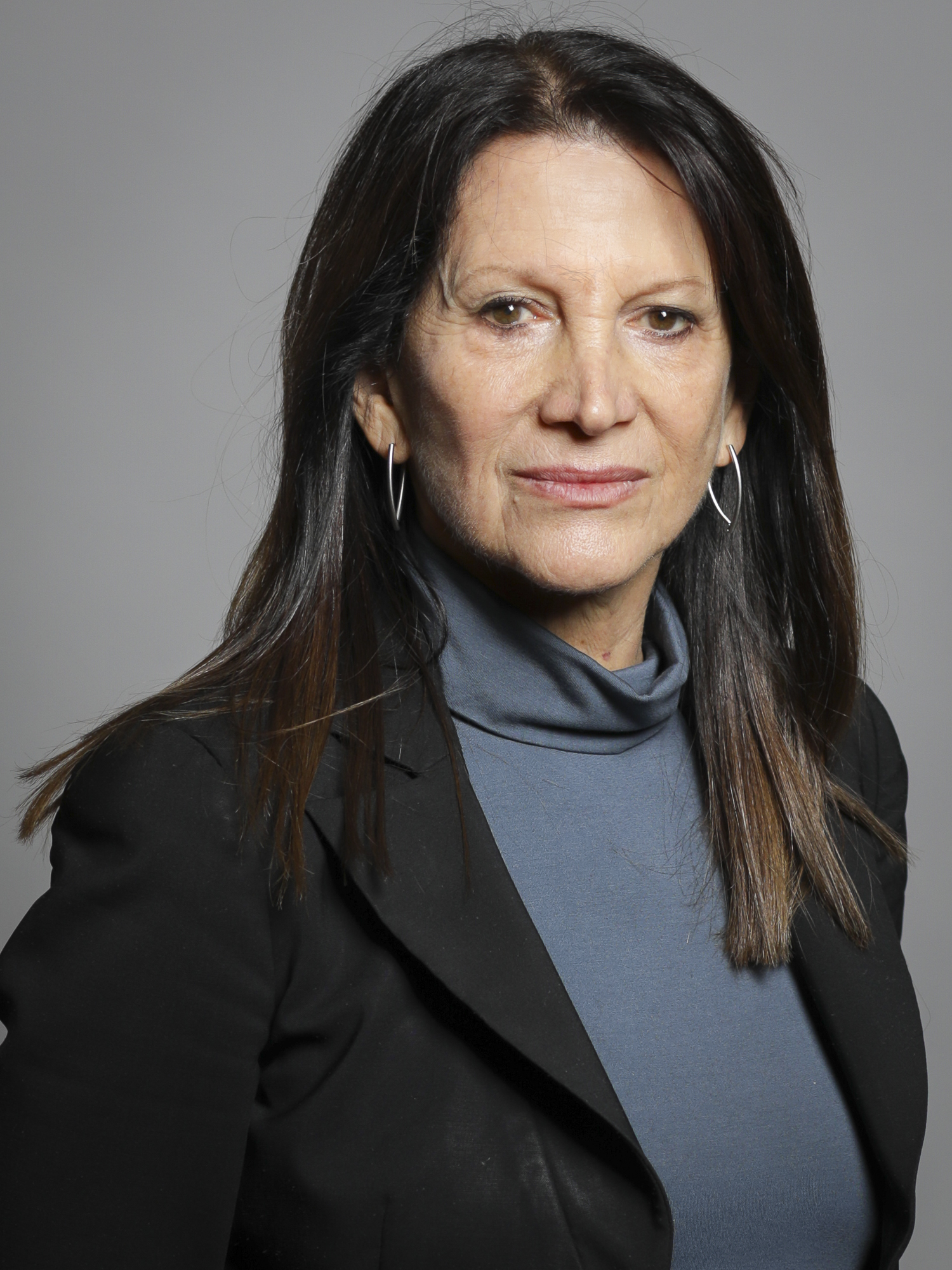 Official portrait of Baroness Featherstone 3×4 portrait of Baroness Featherstone